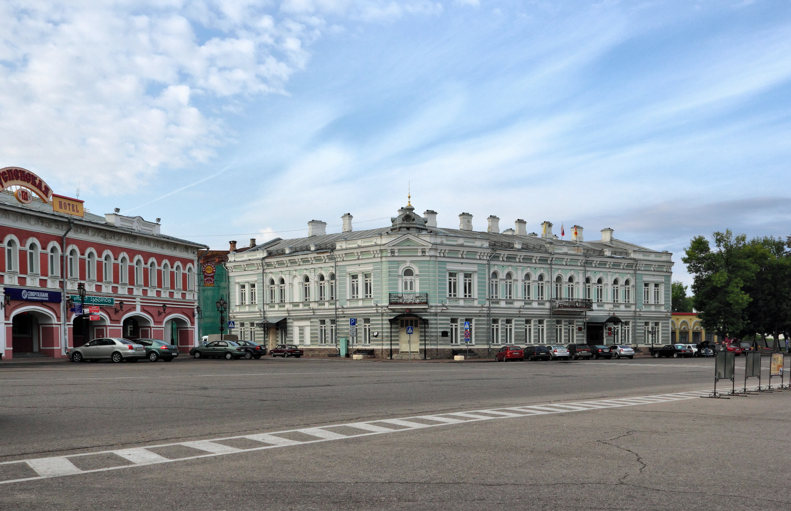 Uglich. Administration. (House of the merchant Evreinov Nikolai Dmitrievich and son Konstantin Nikolaevich)